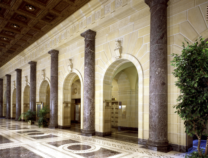 Detail of the Main Lobby of the Herbert C. Hoover United States Department of Commerce Building in Washington, D.C. The building was designed by architect Louis Ayres, with interior design by Barnet Phillips. The floor is of terrazzo and marble, the columns are Doric, and the ceiling is coffered and painted.